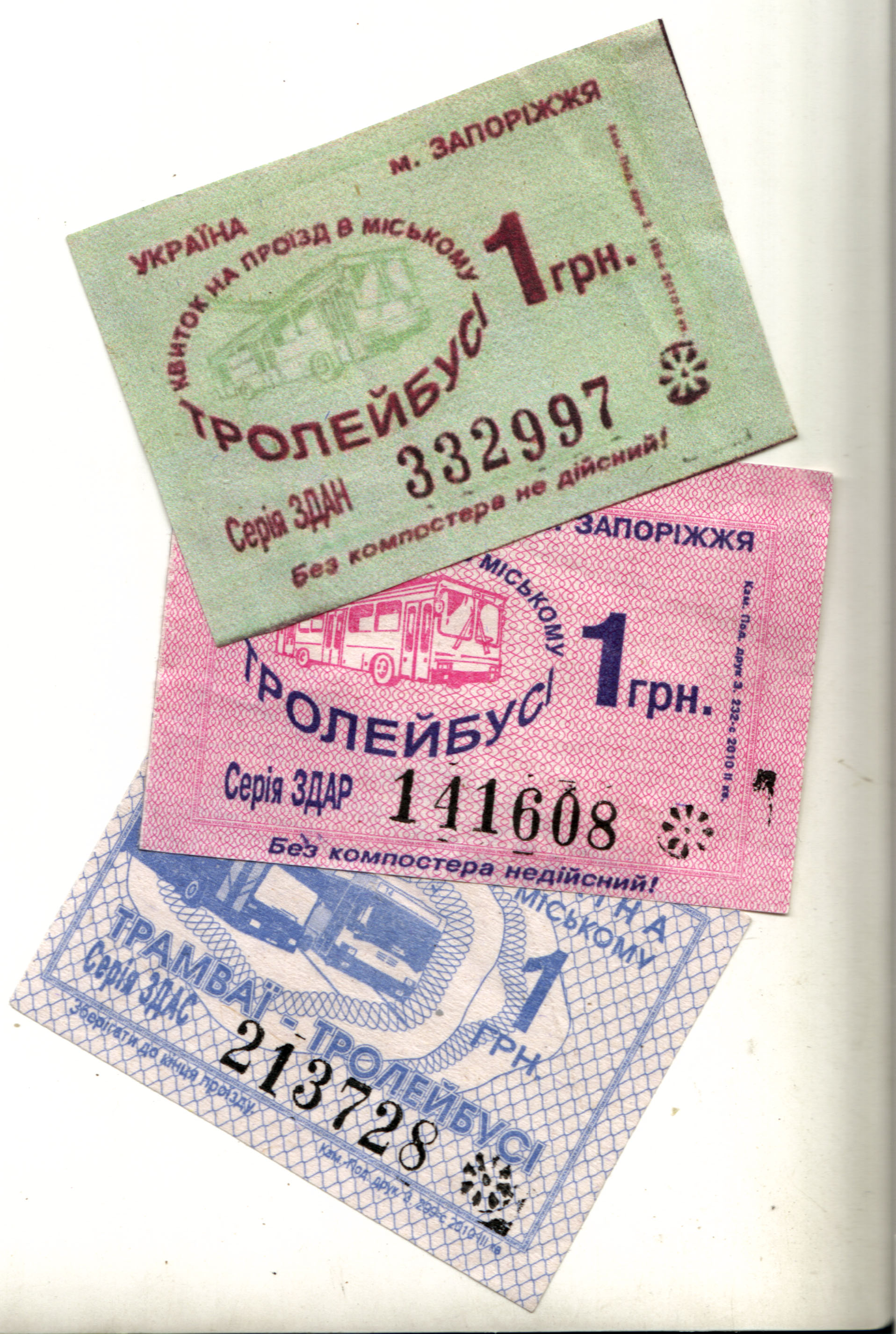 Ticket on passage in the Zaporizhzhya town trolleybus. 2010 year.